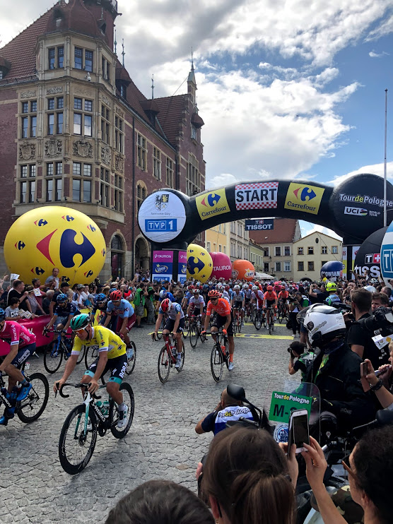 TdP2019 stage 2 start